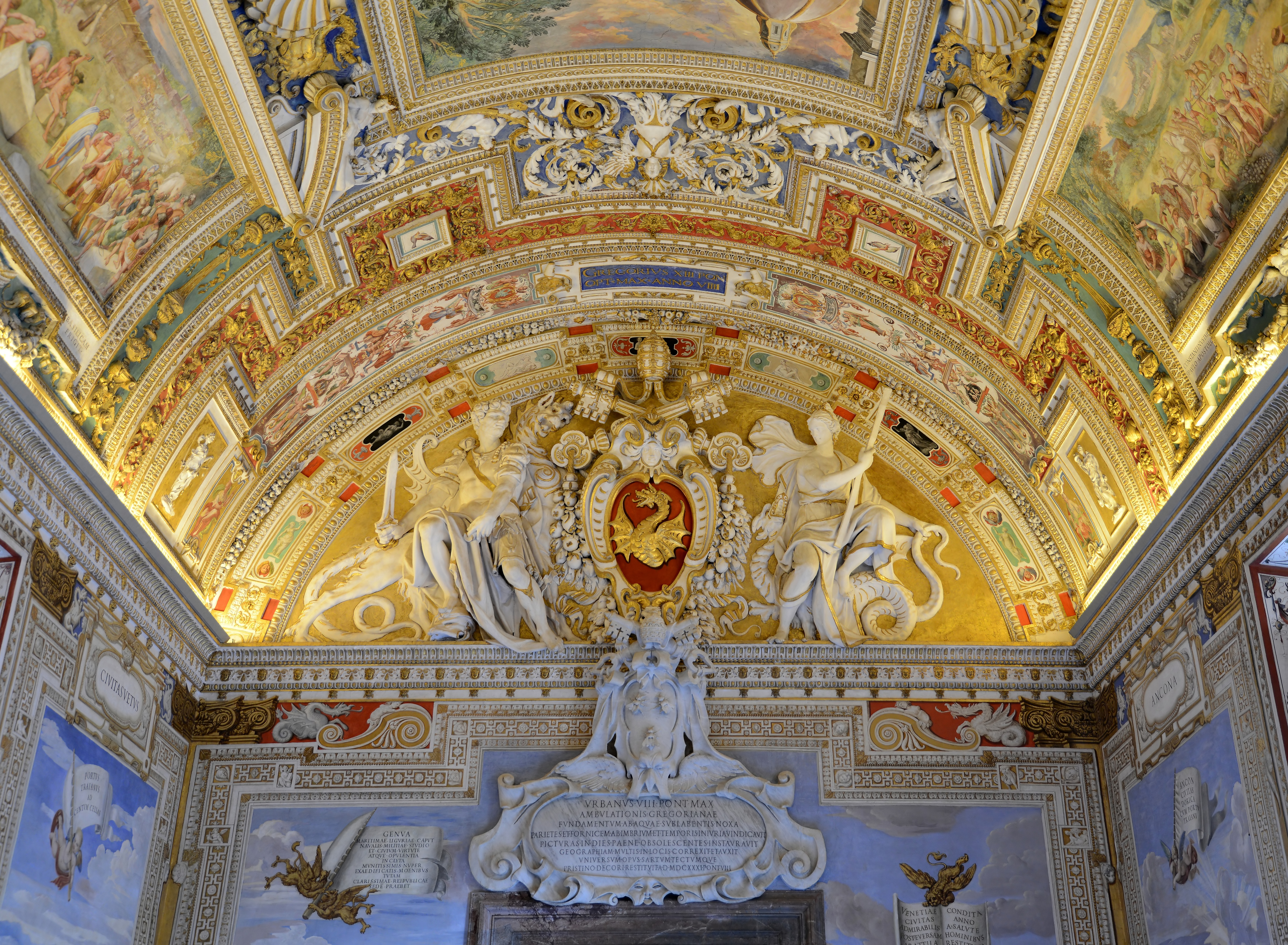 Vaticam Museums: ceiling of the Map Room (detail)